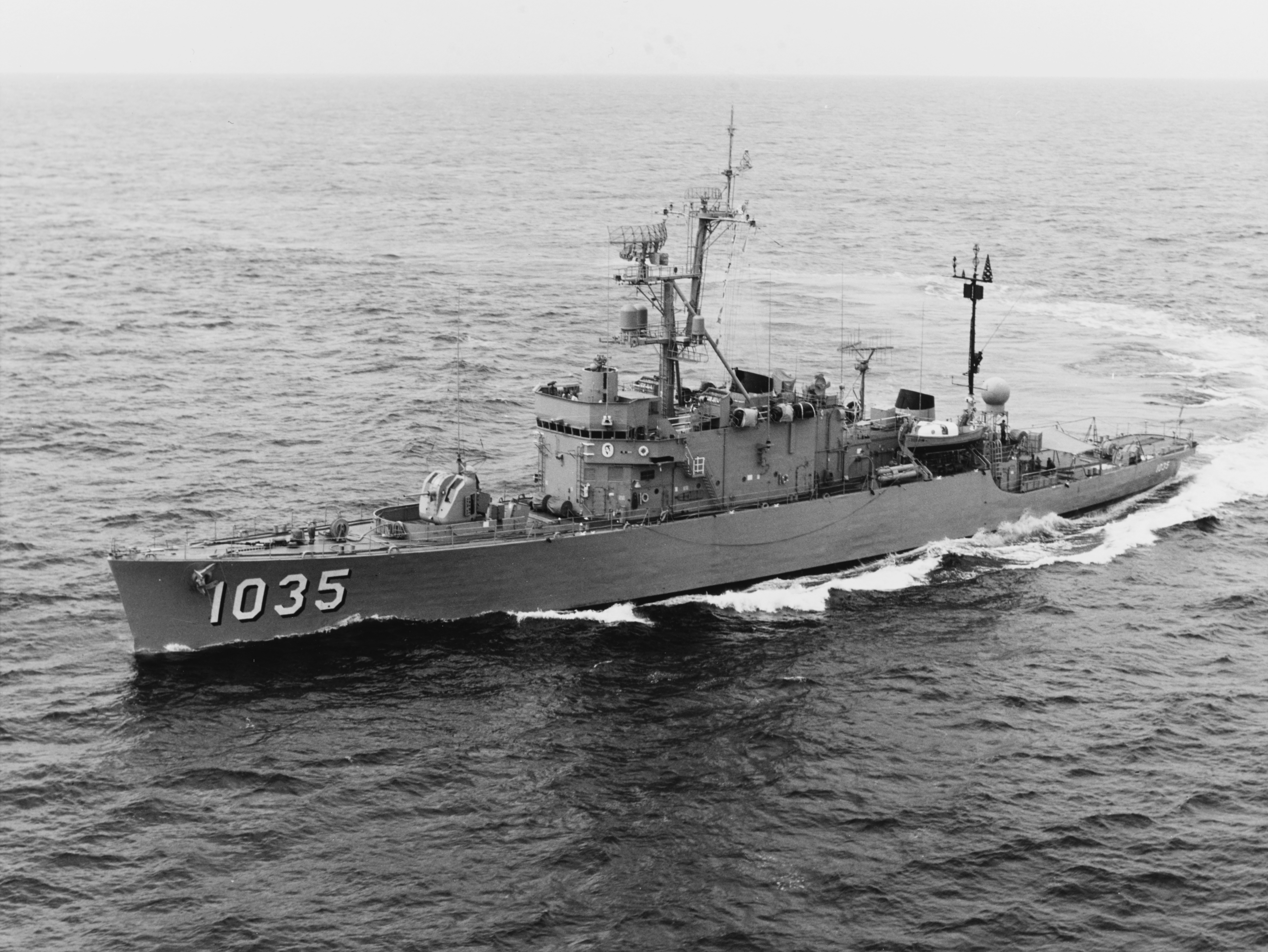 The U.S. Navy ocean escort USS Charles Berry (DE-1035) underway off the coast of Hawaii (USA) on 16 November 1971.